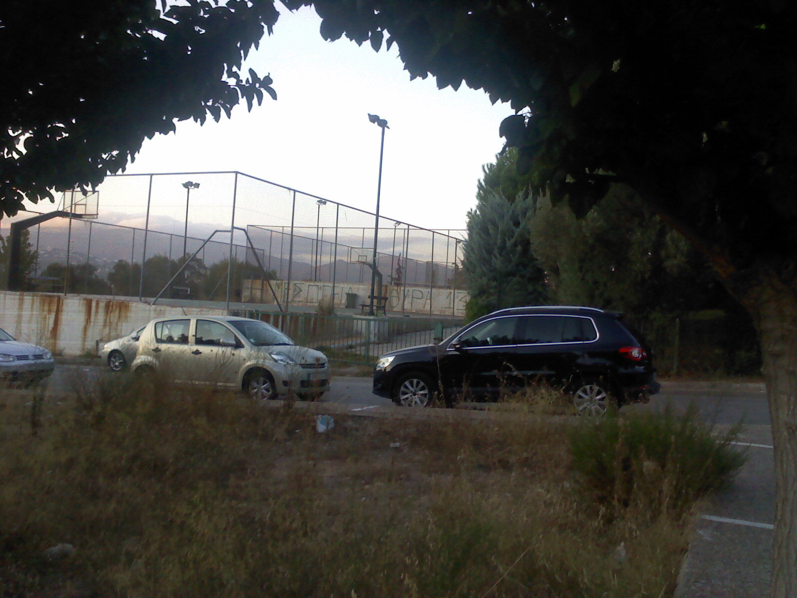 Athletic center Xristoupoli